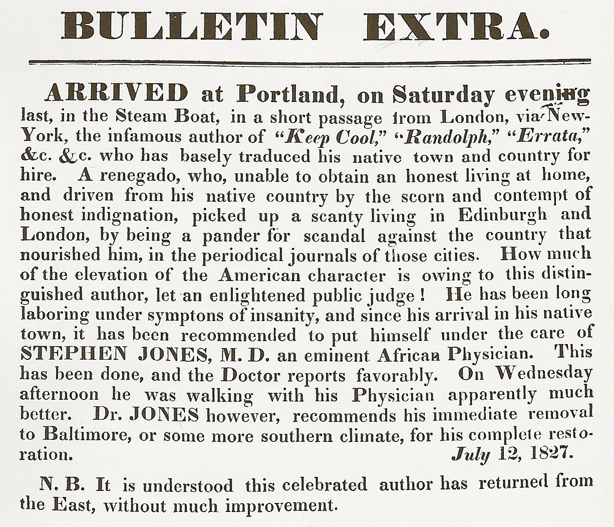 A broadside posted publicly in Portland, Maine shortly after the return to Portland, Maine, USA in 1827 of John Neal, eccentric and influential writer, critic, and activist. Scanned from a page in the 1972 book, That Wild Fellow John Neal and the American Literary Revolution by Benjamin Lease, originally from the Houghton Library.